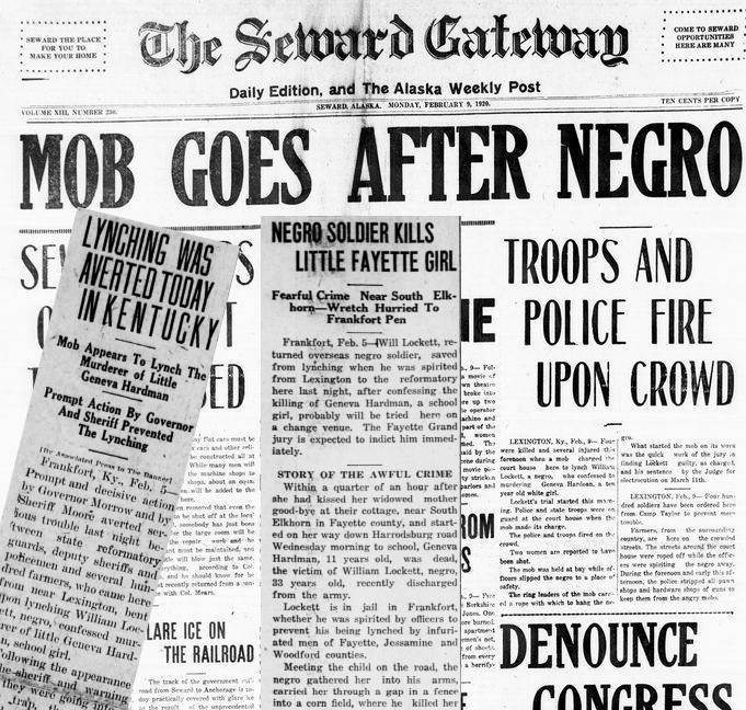 News media coverage of Will Lockett